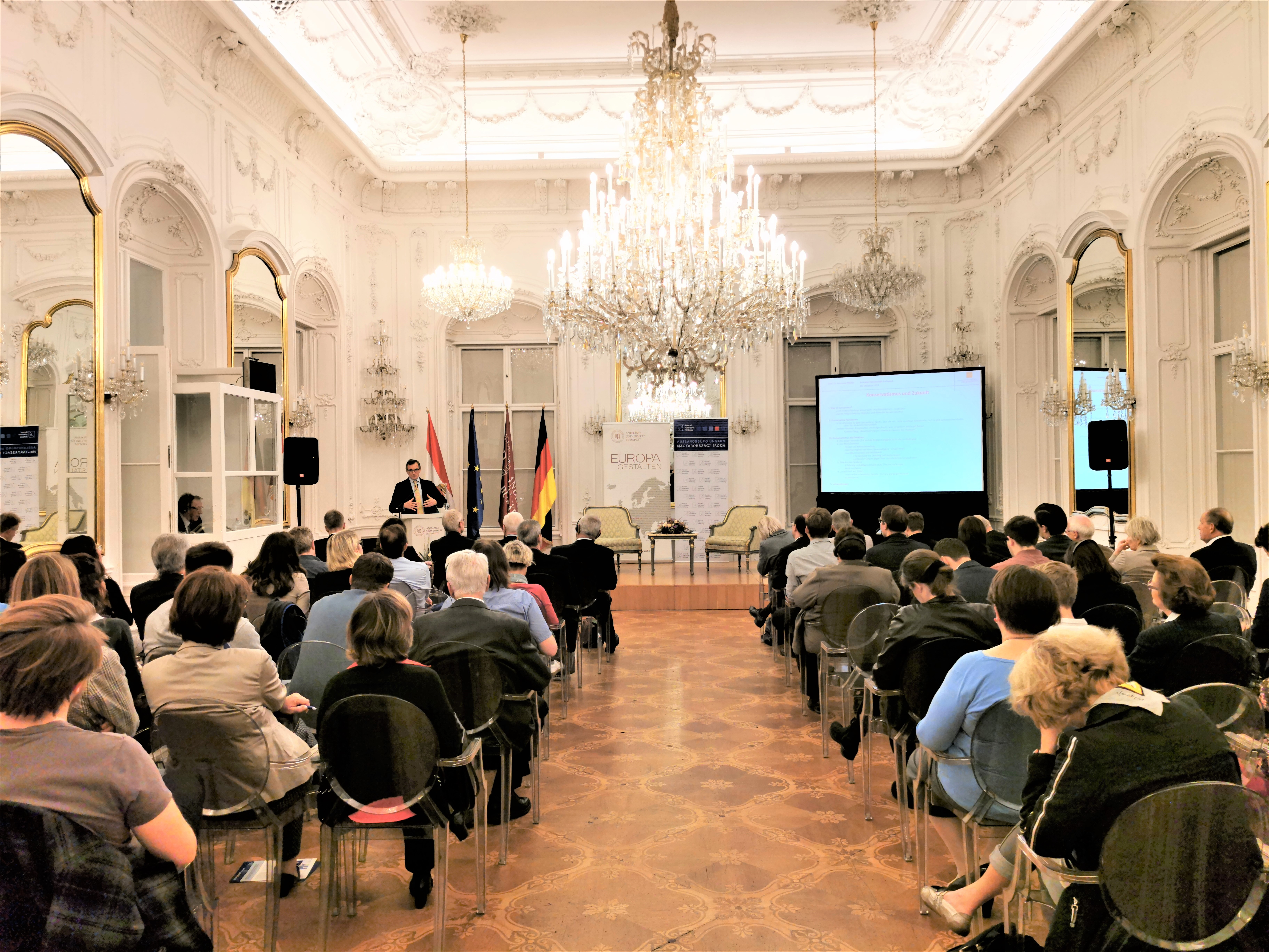 Andreas Rödder giving a lecture at Andrássy Egyetem Budapest. "Konzervativizmus és a jövő". On the 10th of October, 2019.